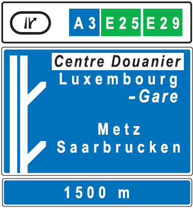 Diagram of road signs of Luxembourg